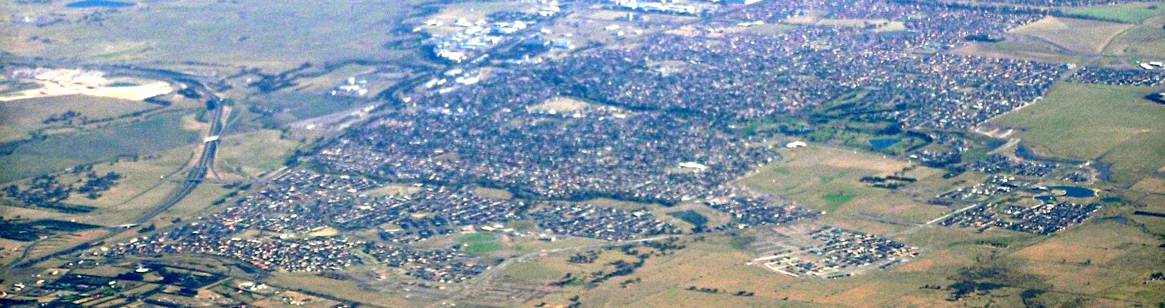 Craigiburn Victoria from north west, Hume highway is on the left, and curves off into the Craigieburn bypass. The Crigieburn Public golf course is prominent in the right of centre, it is on the banks of the Aitken Creek. The reserve Bank note printing factory, in Craigieburn, is the bunch of white buildings on the top, left of the midline